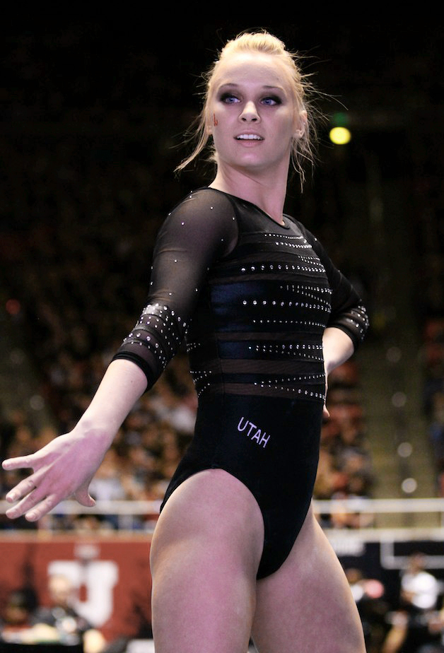 American college gymnast Georgia Dabritz performing during her floor routine at the University of Utah versus Stanford meet on 23 February 2013.